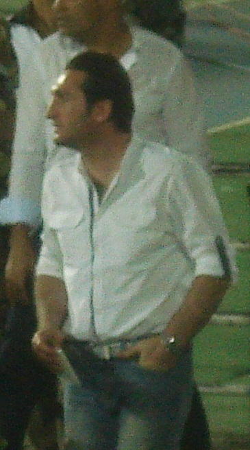 Edmond Bezik, Persepolis-Malavan match, 2012-13 Iran Pro League